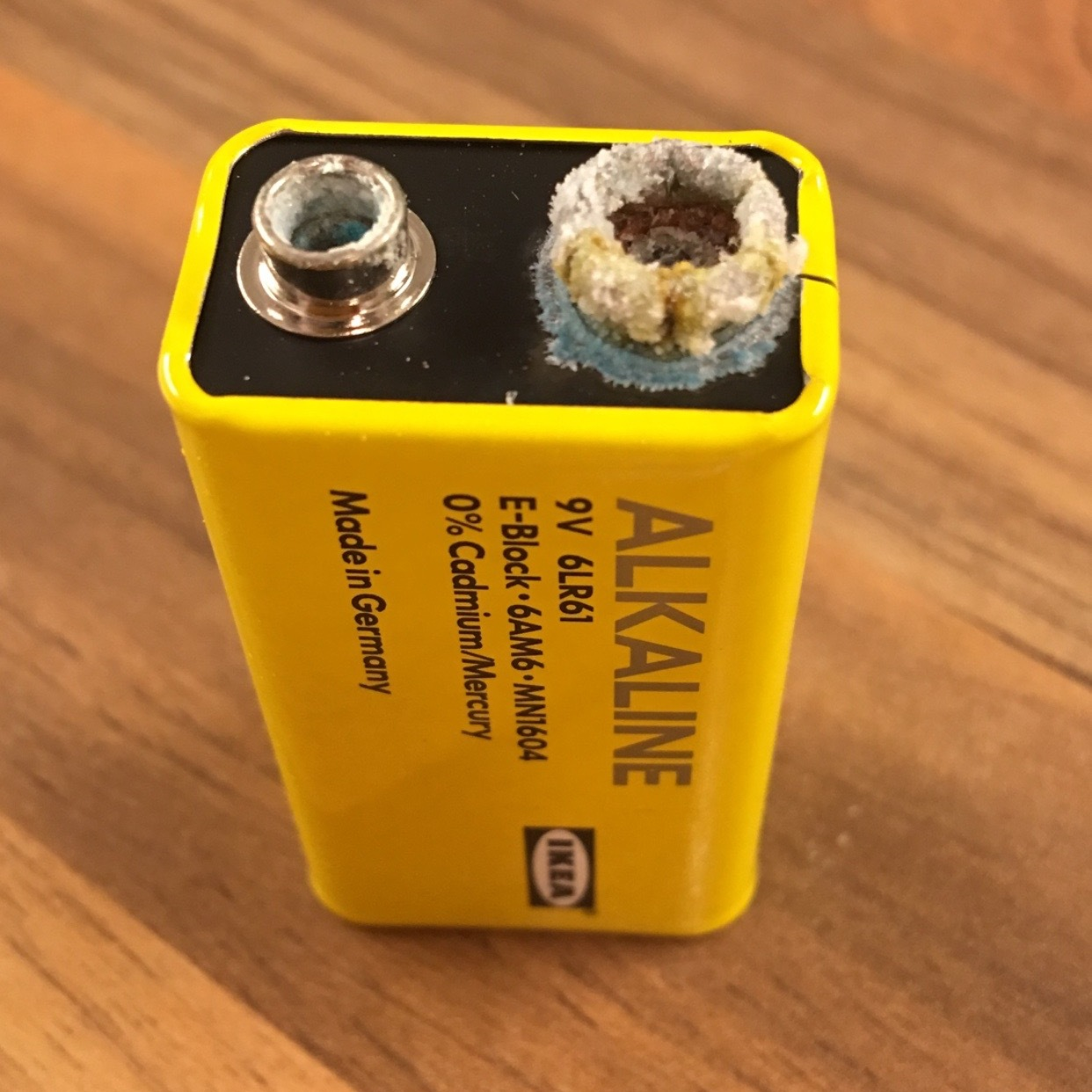 Leaked alkaline battery